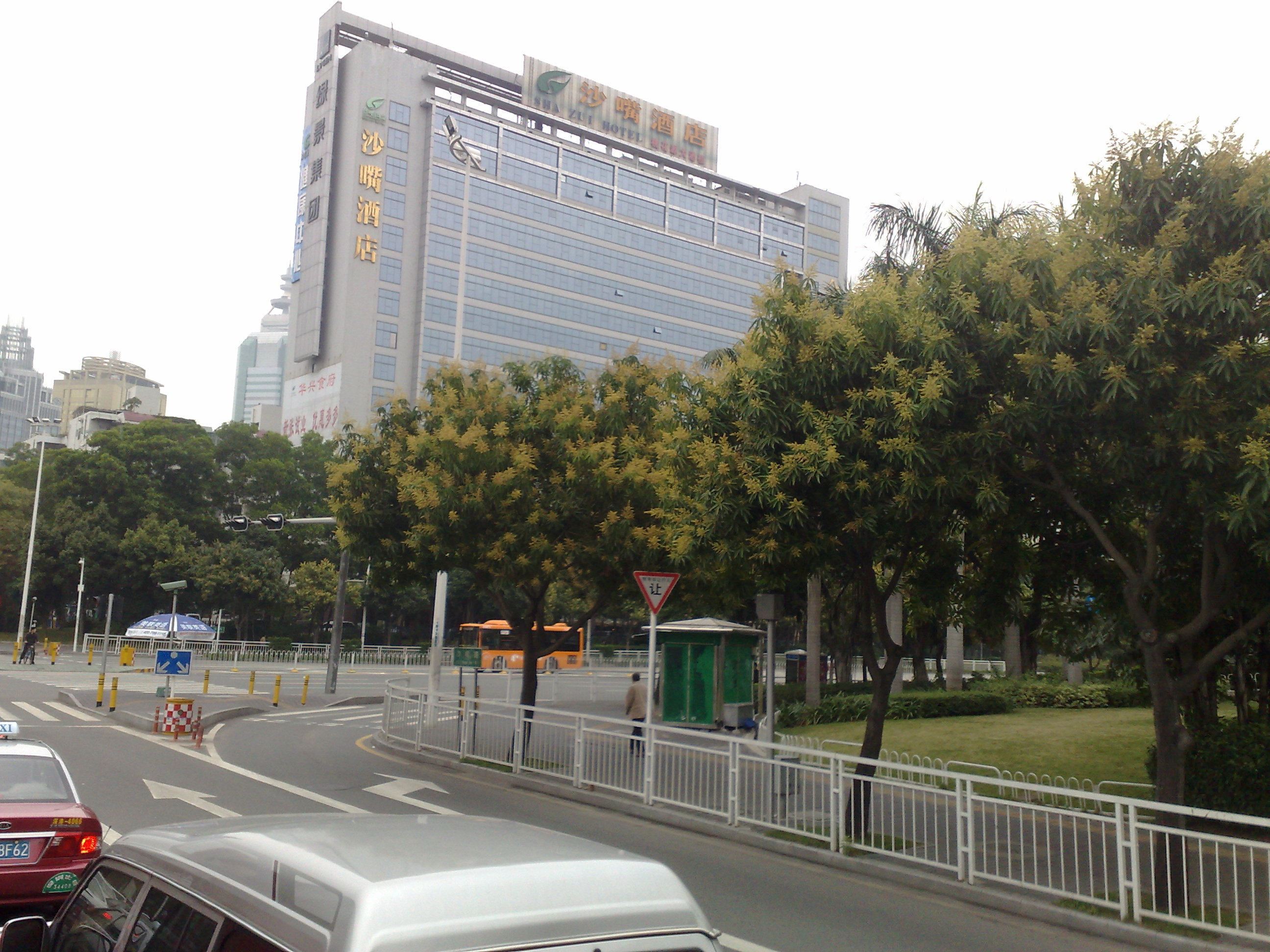 A street in Shazui Road Junction, Shenzhen.